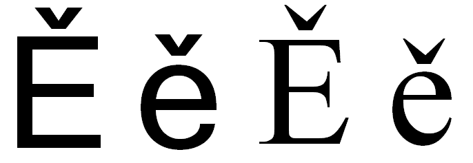 Latin_letter_Ěě.